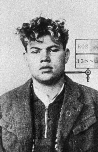 Marinus van der Lubbe (1909-1934). Photograph taken by the German police shortly after his arrest, probably Febr. 1933